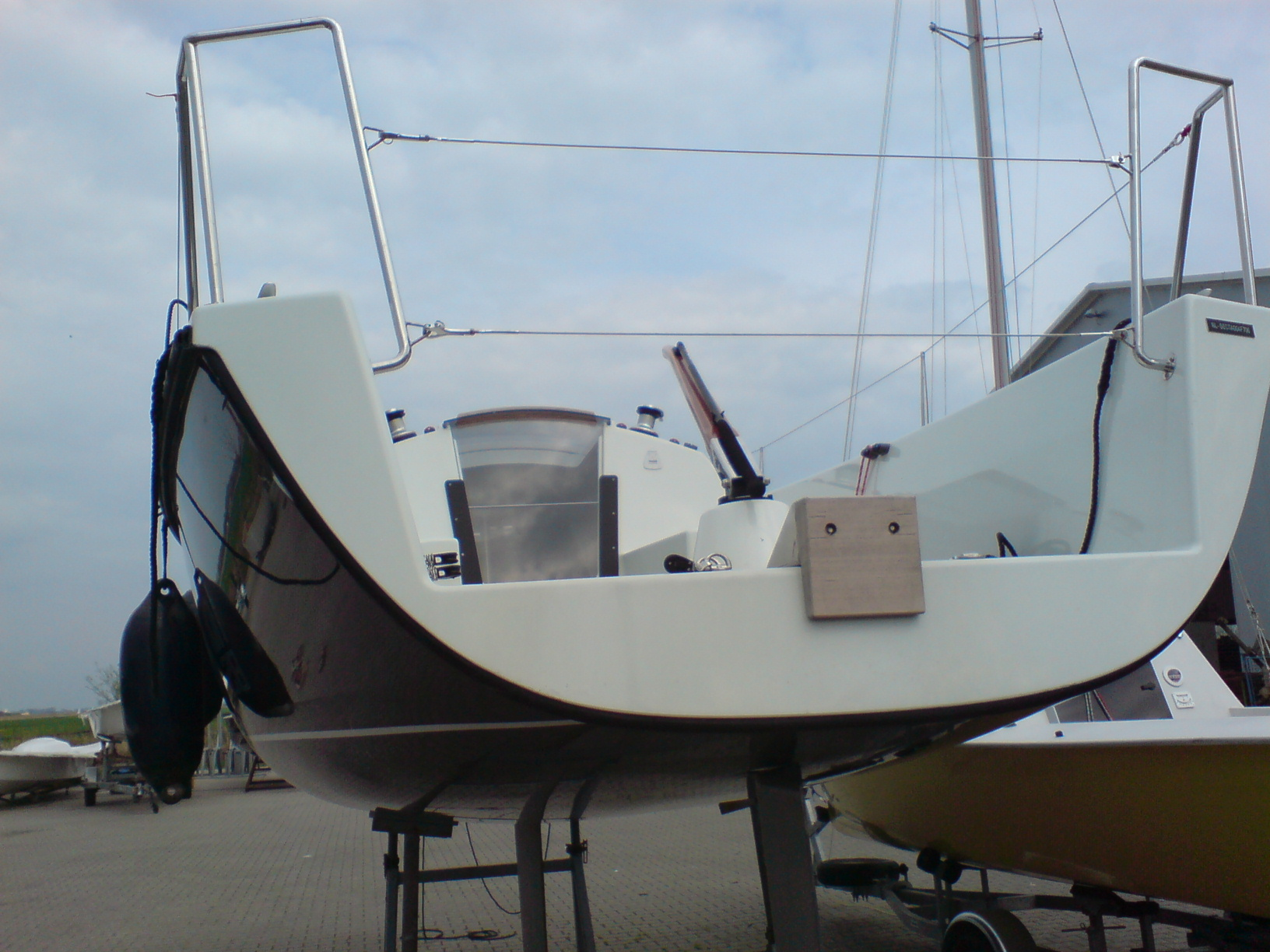 Back of Tirion28